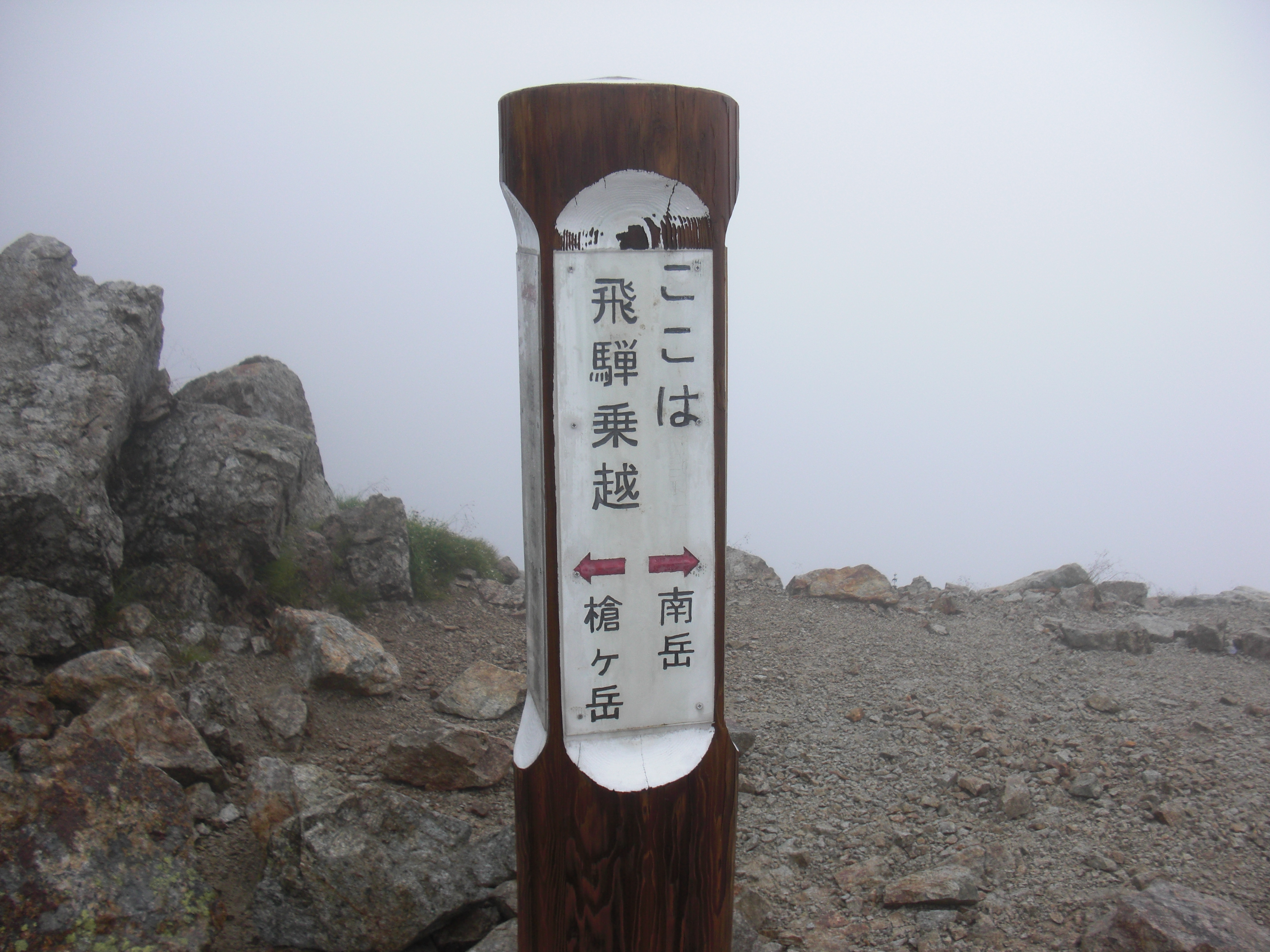 Fingerpost at Hida Nokkoshi pass in the Hida Mountains, Japan